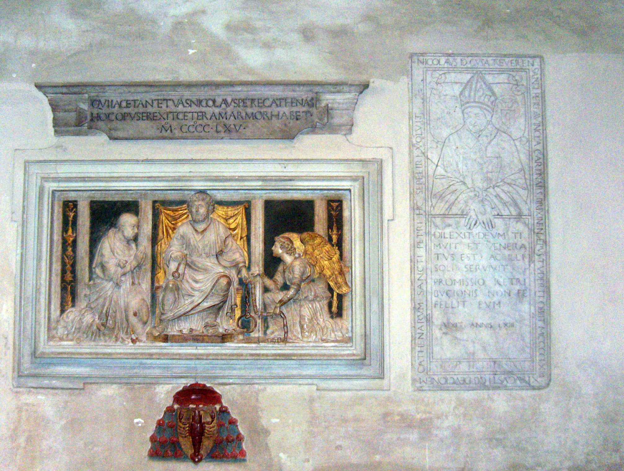 The tomb of Cardinal Nicholas of Kues (d 1464), with its relief "Cardinal Nicholas before St Peter", is by Andrea Bregno in the church S. Pietro in Vincoli, Rome, Italy